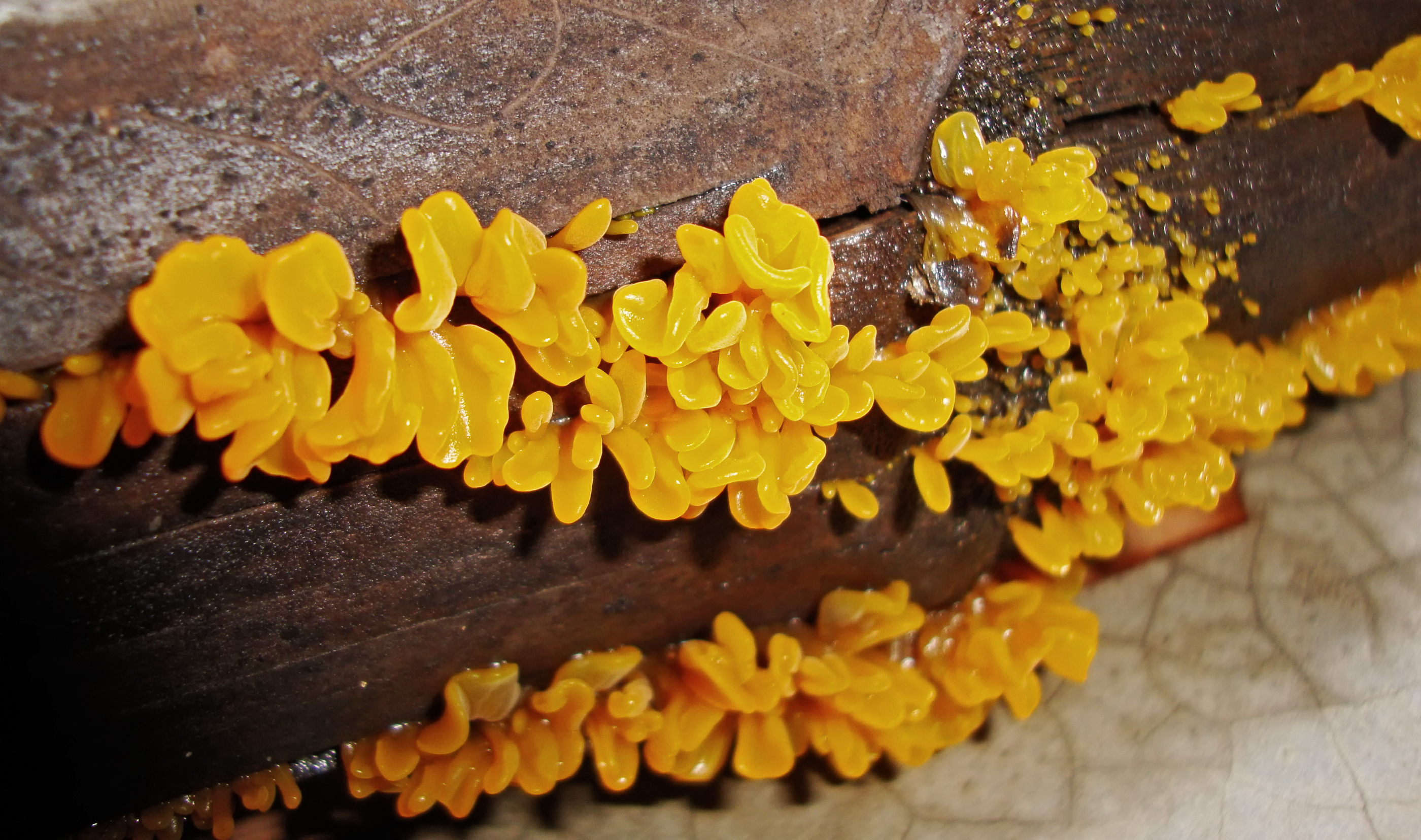 Dacrymyces palmatus (Orange jelly fungus)